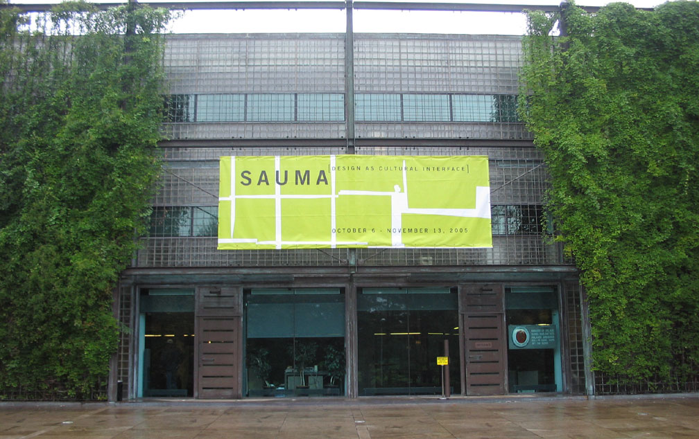 Embassy of Finland, Washington, D.C.